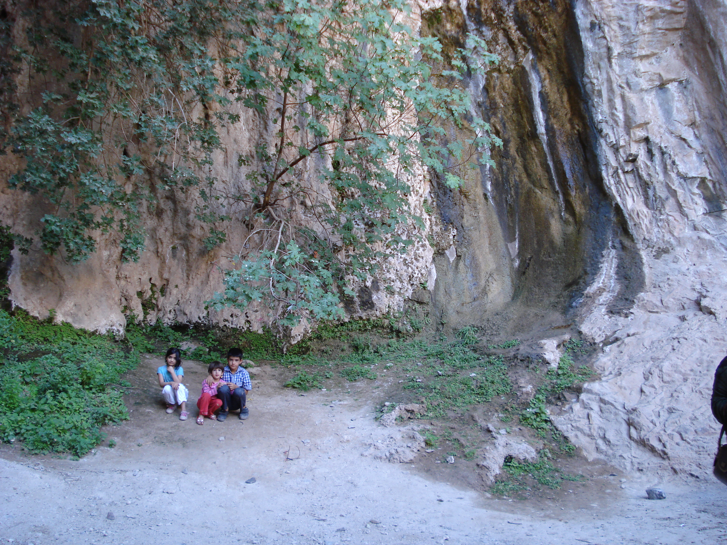 Children at the castle of the last Sassanid emperor in Zibad